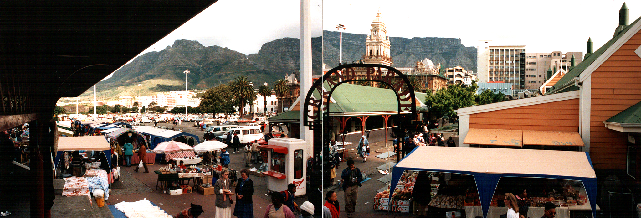 A panoramic view of the Market in downtown Cape Town, South Africa. In the background, the Tabel Mountain. To the far left, a part of the old Castle of Good Hope can be seen. The building in the center with a clock tower is the old City Hall.